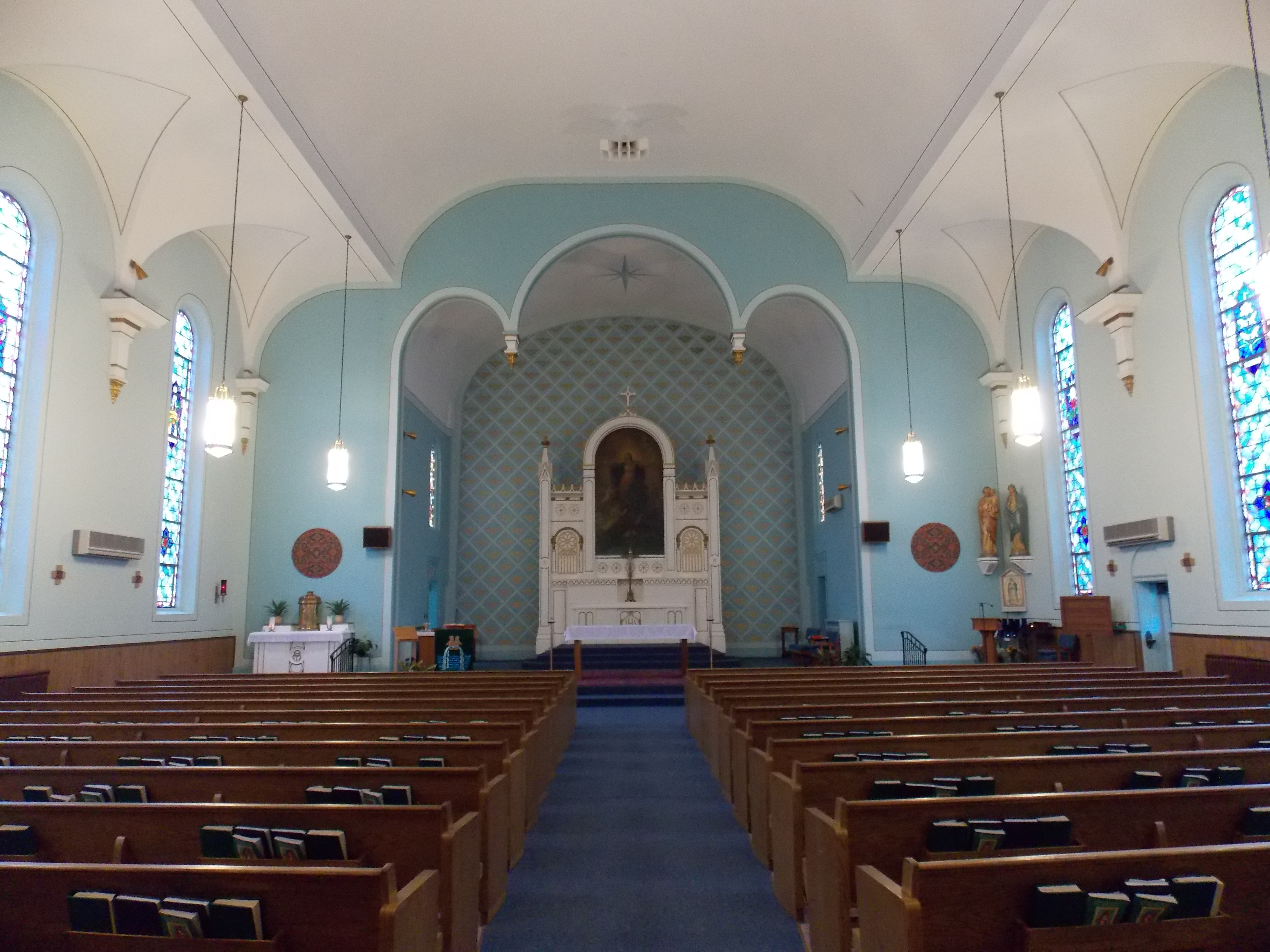 The interior of St. Mary's Catholic Church in Davenport, Iowa. The reredos features the painting of the Assumption of the Blessed Virgin by Guido Reni.